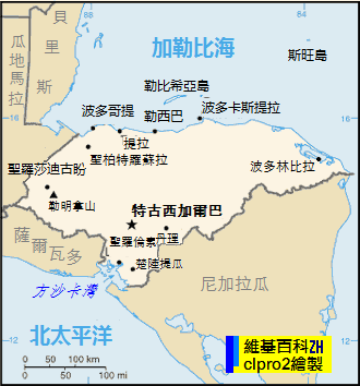 Honduras Geographic map in Chinese